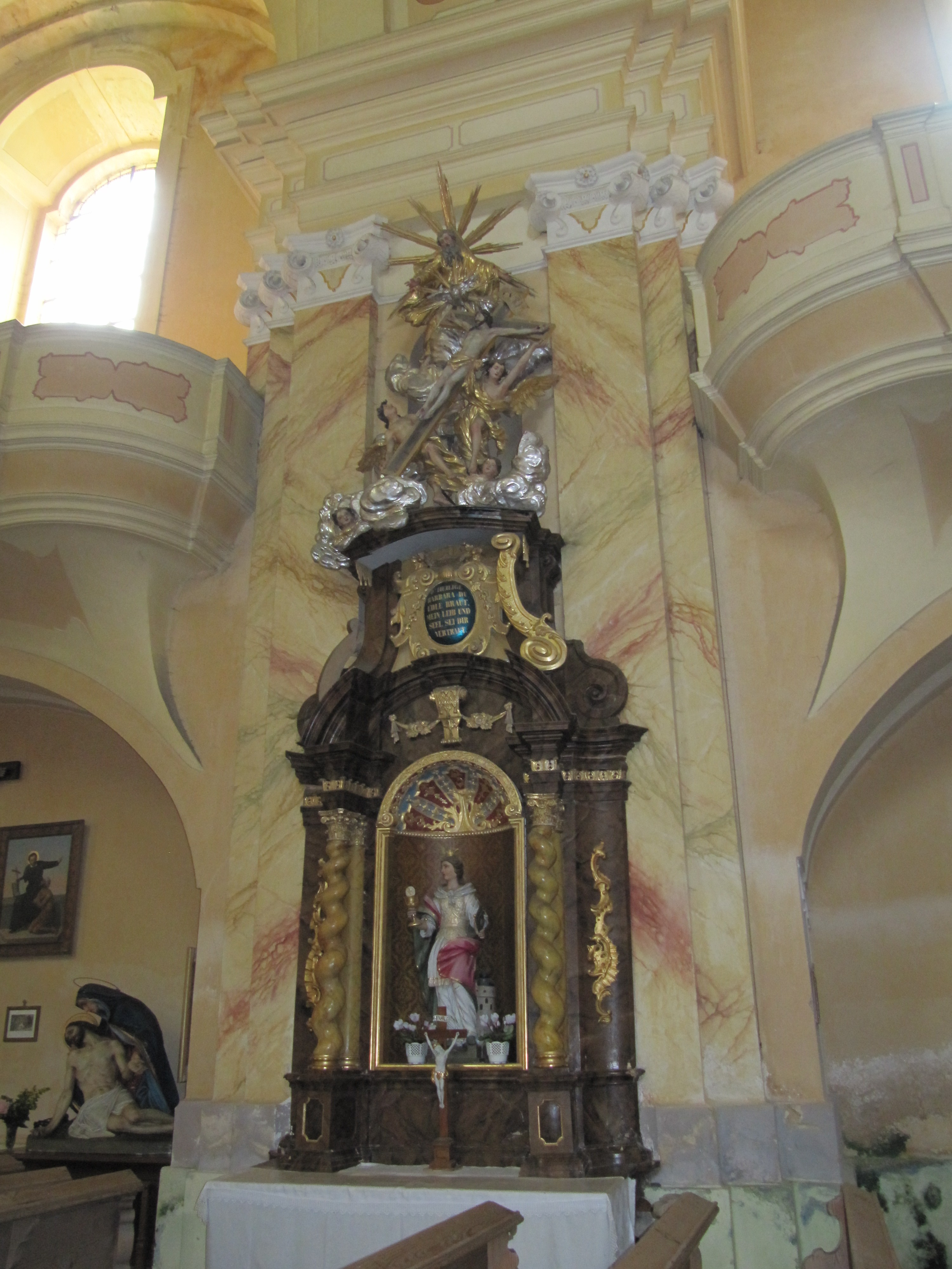 Staré Křečany in Děčín District, Czech Republic. Interior of the church of Saint John of Nepomuk, side altar.